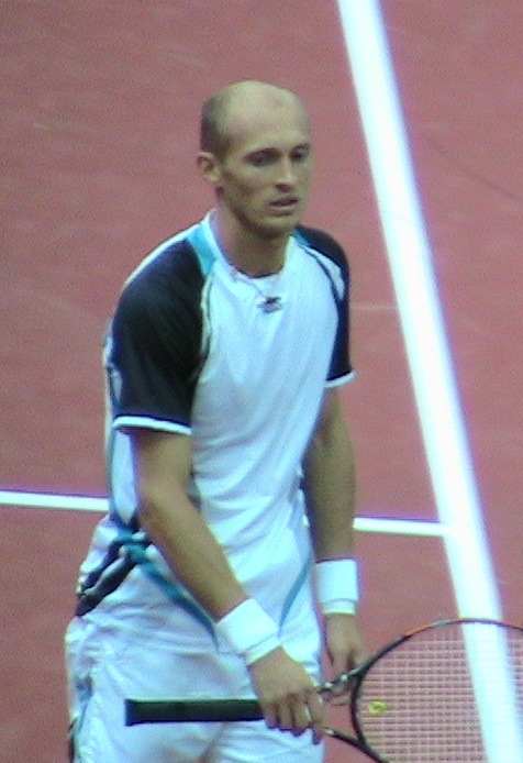 Davydenko at 2009 Kremlin Cup in Moscow